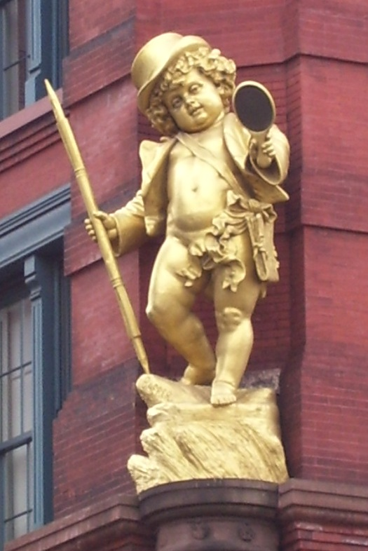 The gilded statue of Puck by sculptor Henry Baerer on the northeast corner of the Puck Building, at Lafayette and Mulberry Streets.